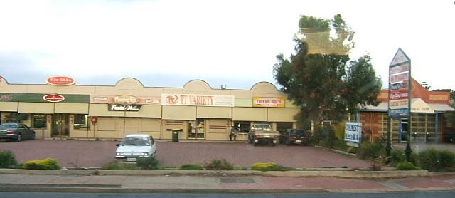 Hanson Rd, Woodville Gardens, Adelaide, South Australia